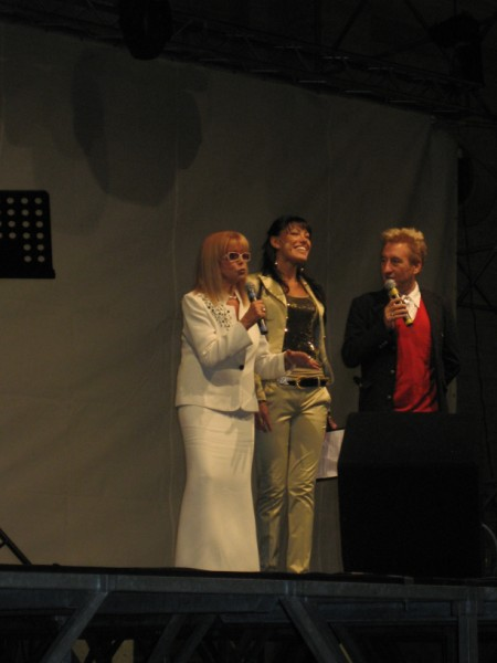 Homage to Pino Rucher, a life for the guitar (Manfredonia). The music critic Dario Salvatori and the presenter, Floriana Rignanese, introduce singer Miranda Martino.